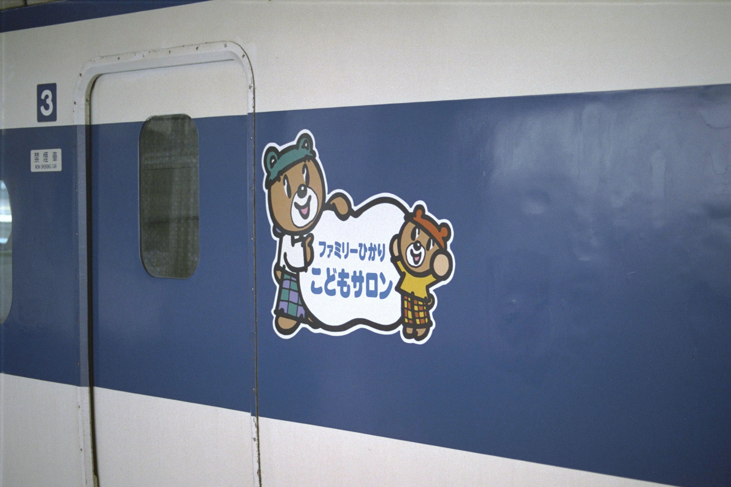 "Family Hikari Children's Saloon" logo on the side of JR West 0 series shinkansen car 37-7731 of set R24 at Nishi-Akashi Station